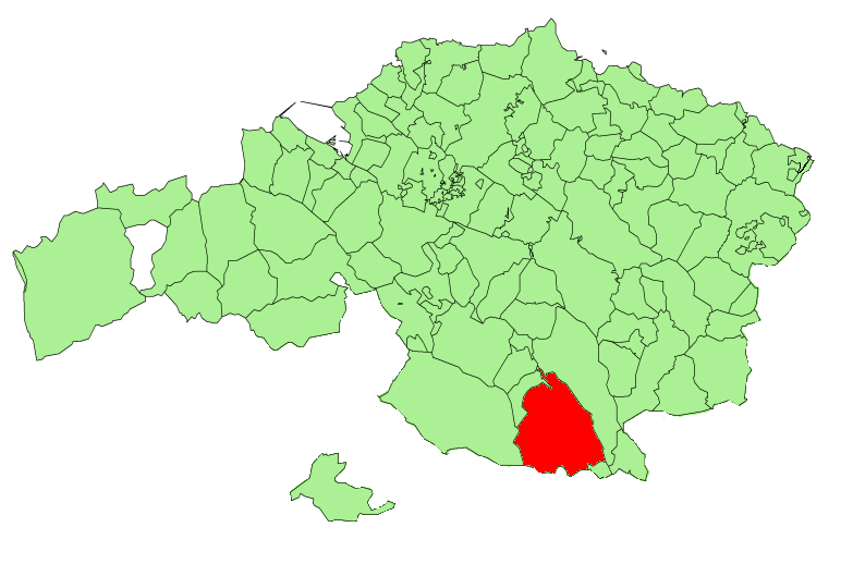 Zeanuri municipality in the province of Biscay